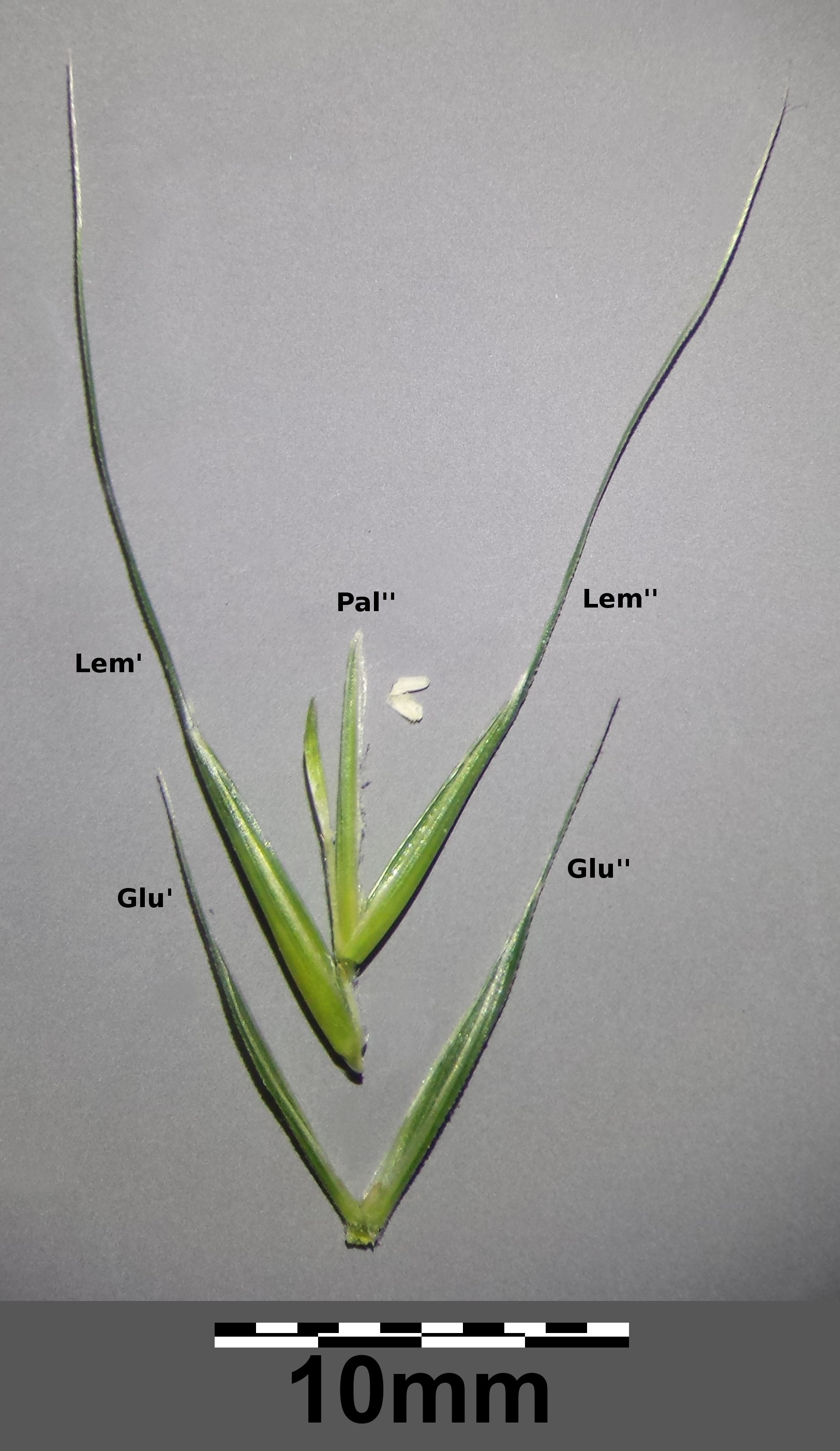 Spikelet Glu = Gluma Lem = Lemma Pal = Palea Taxonym: Elymus caninus ss Fischer et al. EfÖLS 2008 ISBN 978-3-85474-187-9 Location: Rohrwald, district Korneuburg, Lower Austria - ca. 280 m a.s.l. Habitat: wet wood